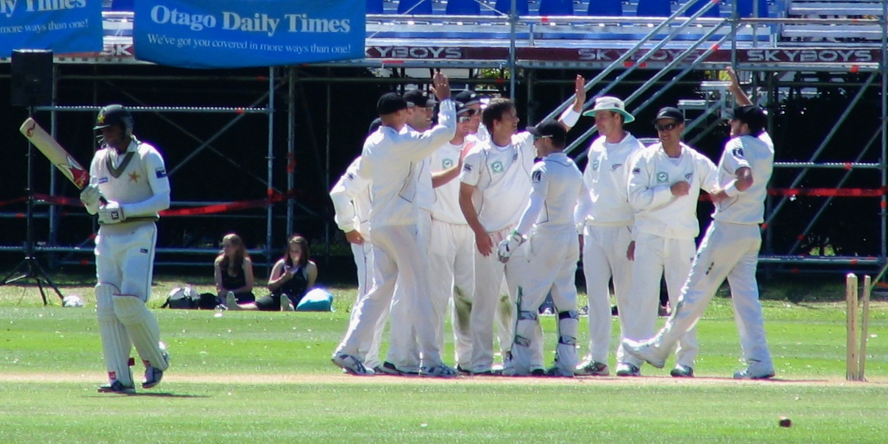 Ten members of the New Zealand cricket team celebrate Shane Bond's dismissal of Shoaib Malik, during a test match between Pakistan and New Zealand at the University Oval in Dunedin, New Zealand.